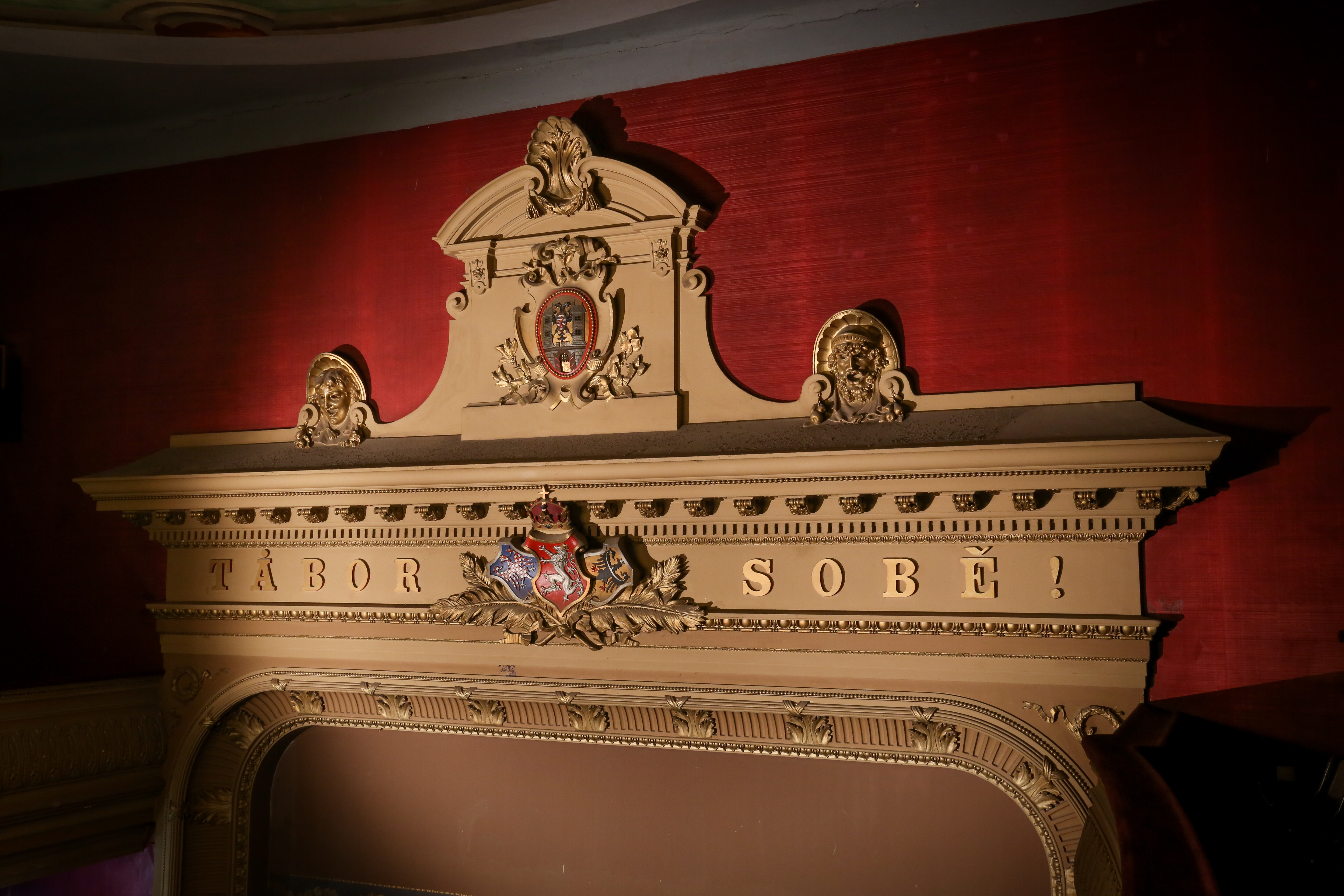 theatre Tábor